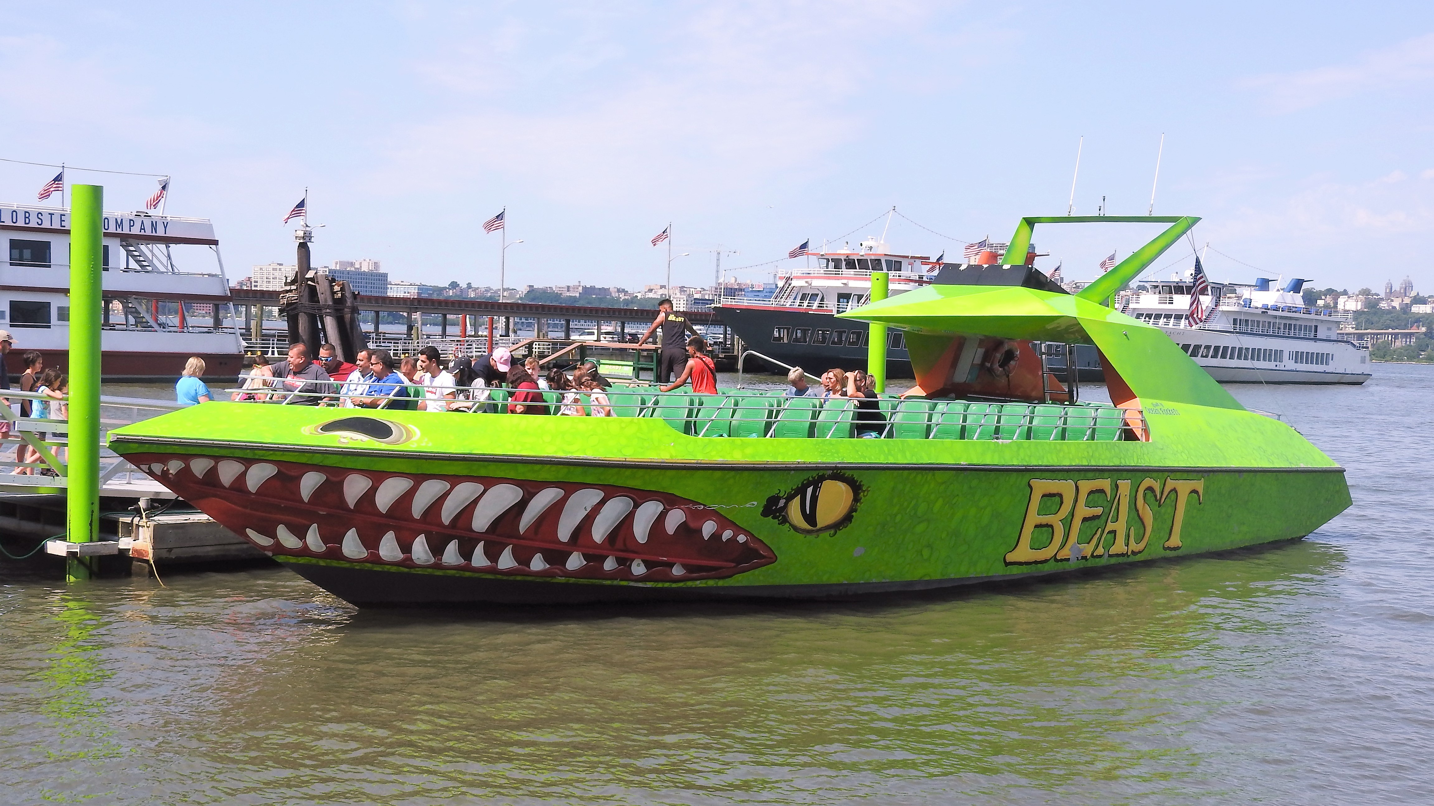 Looking west at speedboat preparing for its exciting ride